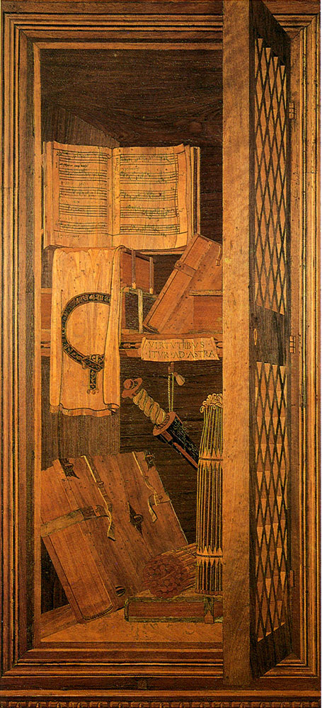 Mosaic woodwork, Studiolo